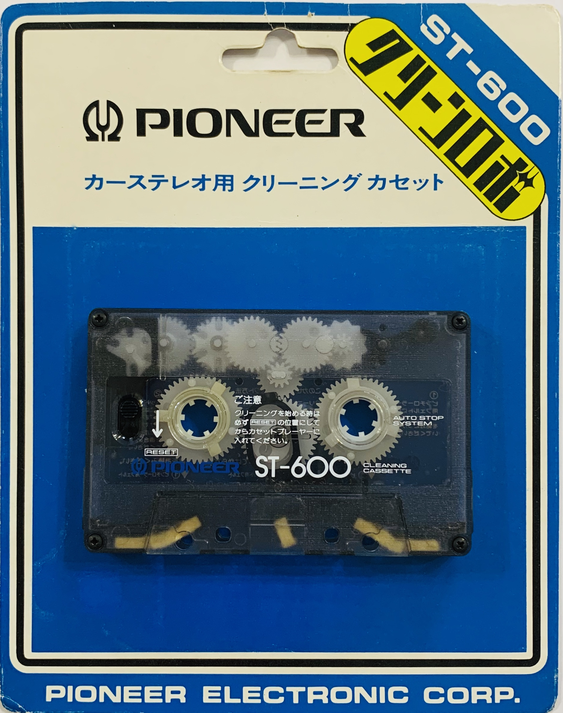 Cleaning cassette for car stereo